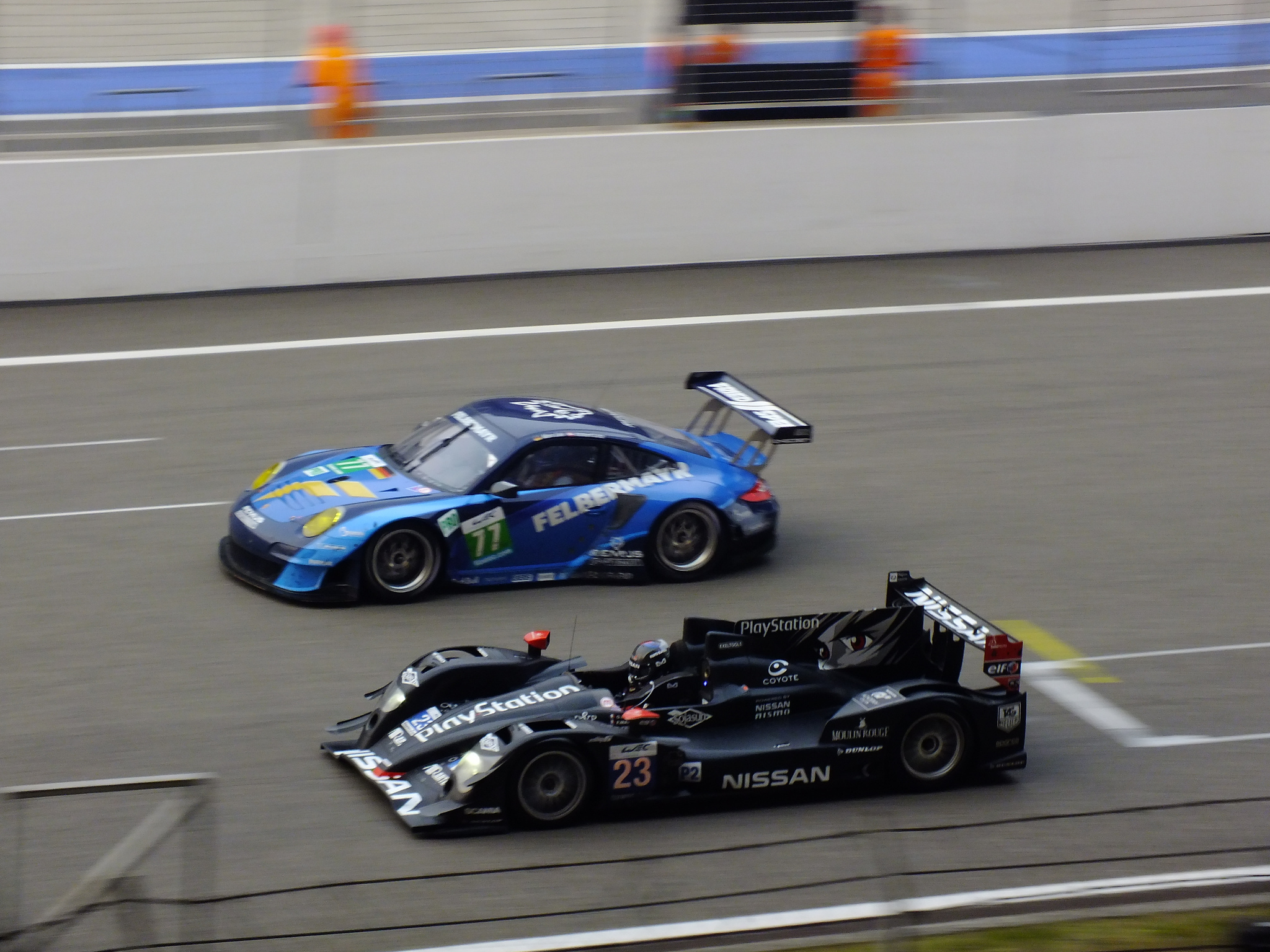 Marc Lieb in the Team Felbermayr-Proton Porsche 997 GT3-RSR and Lucas Ordóñez in the Signatech Nissan Oreca 03-Nissan at the 2012 6 Hours of Shanghai